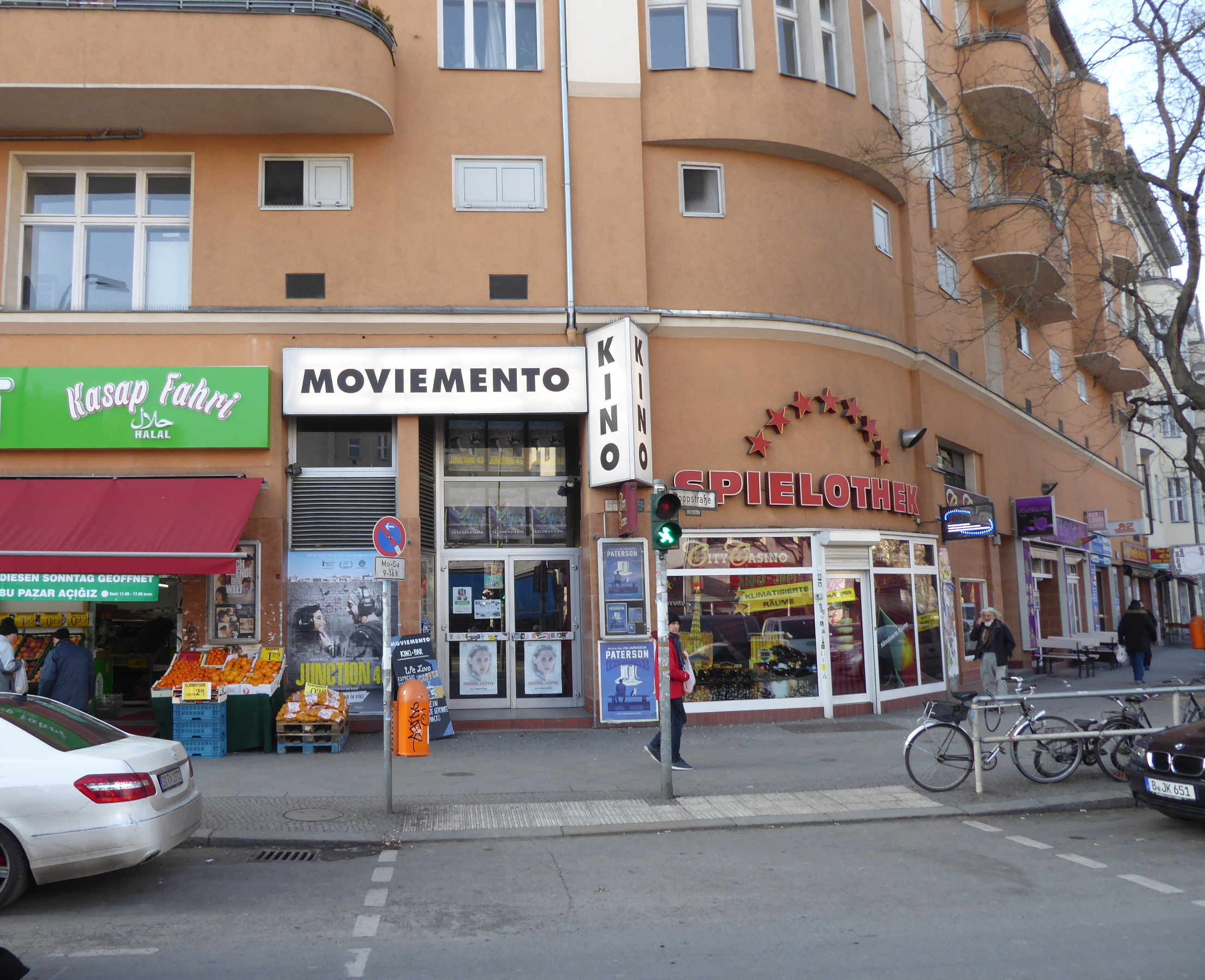 Kreuzberg Kottbusser Damm Moviemento